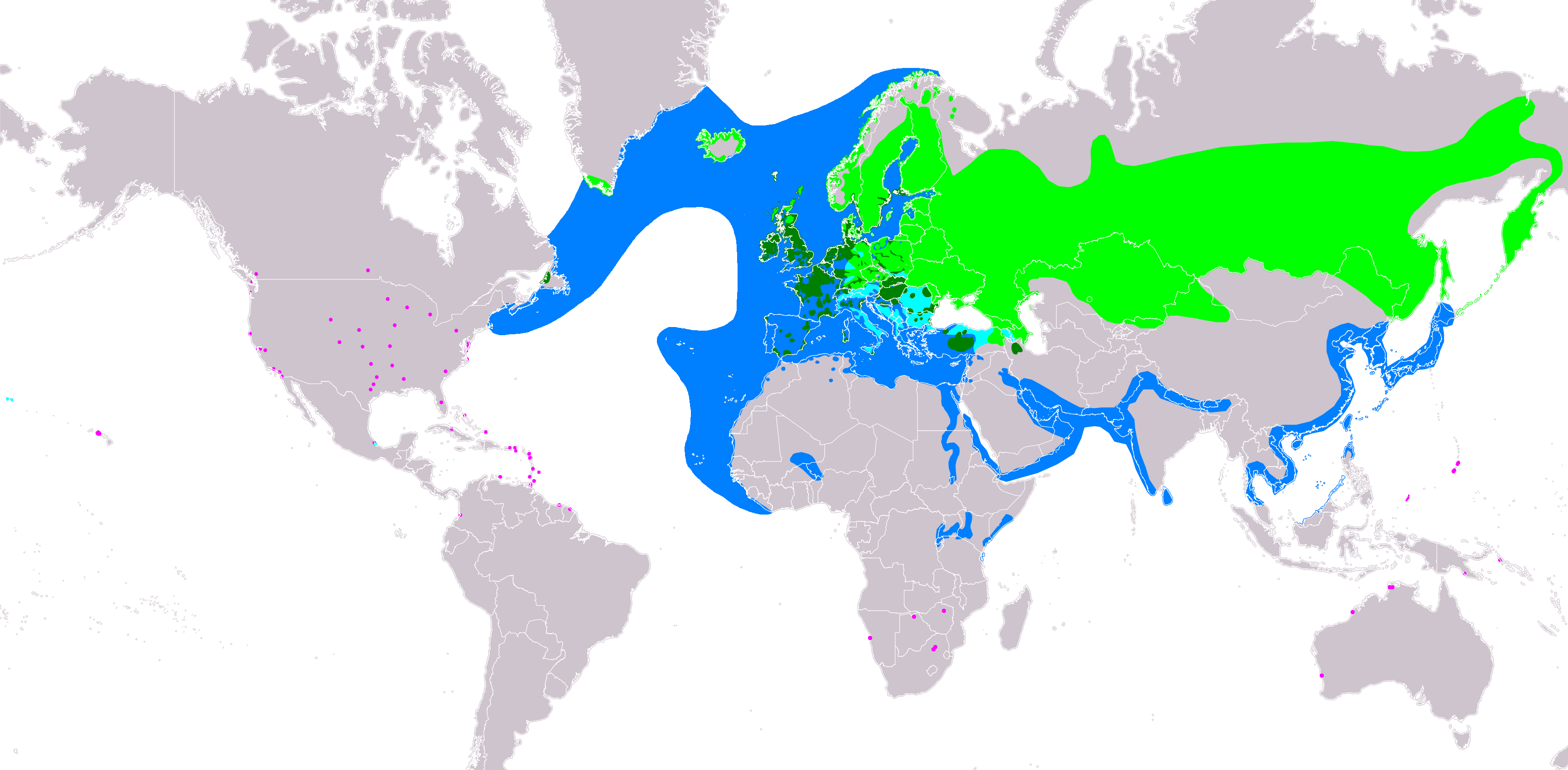 Distribution map of black-headed gull (Chroicocephalus ridibundus) according to IUCN version 2019-2 ; key: Legend: Extant, breeding (#00FF00), Extant, resident (#008000), Extant, passage (#00FFFF), Extant, non-breeding (#007FFF), Extant & Vagrant (seasonality uncertain) (#FF00FF)